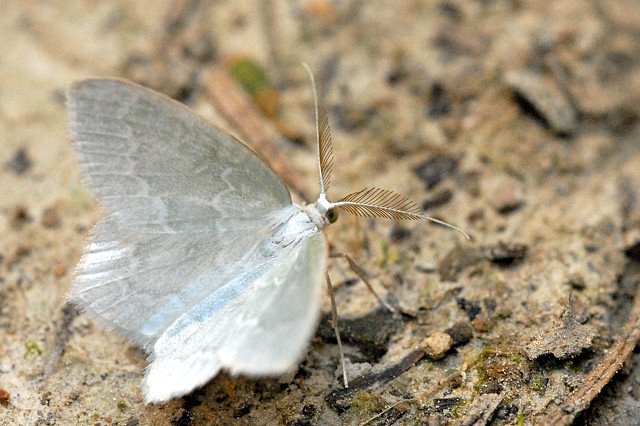 Jodis putata from Commanster, Belgian High Ardennes .